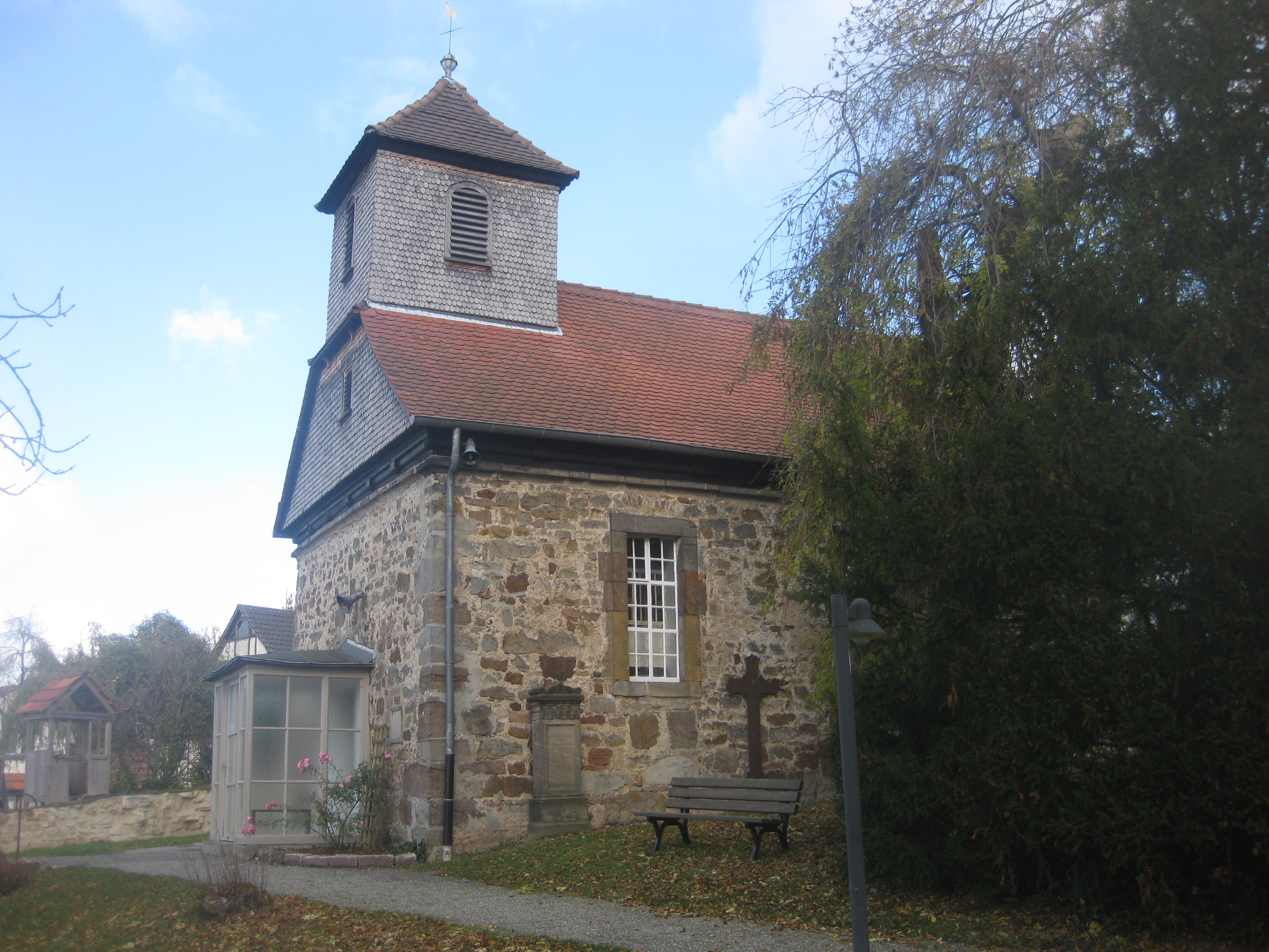 Church of Ochshausen